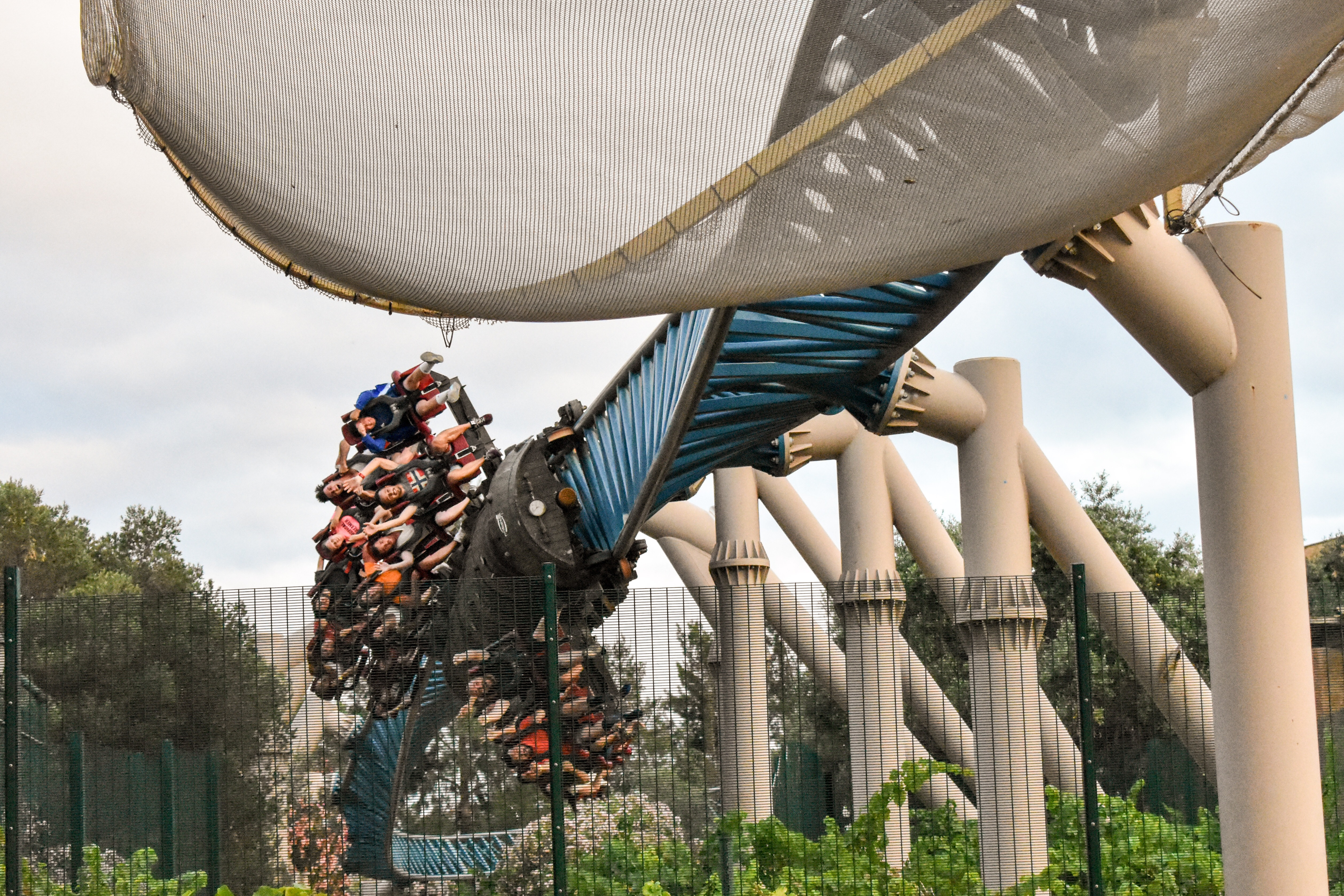 The inline twist on Furius Baco at Portaventua World